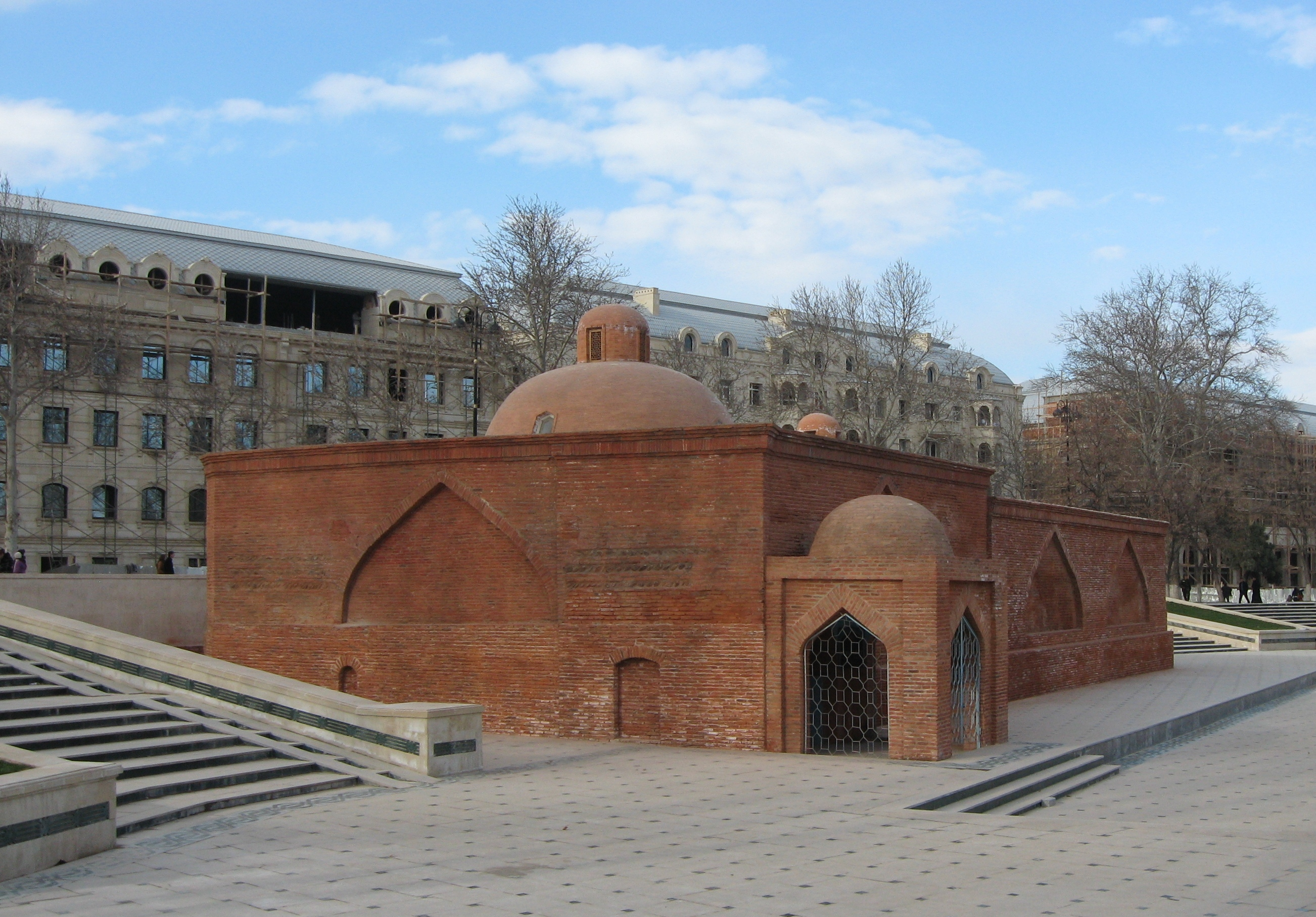 Bath in Ganja. 16 century.